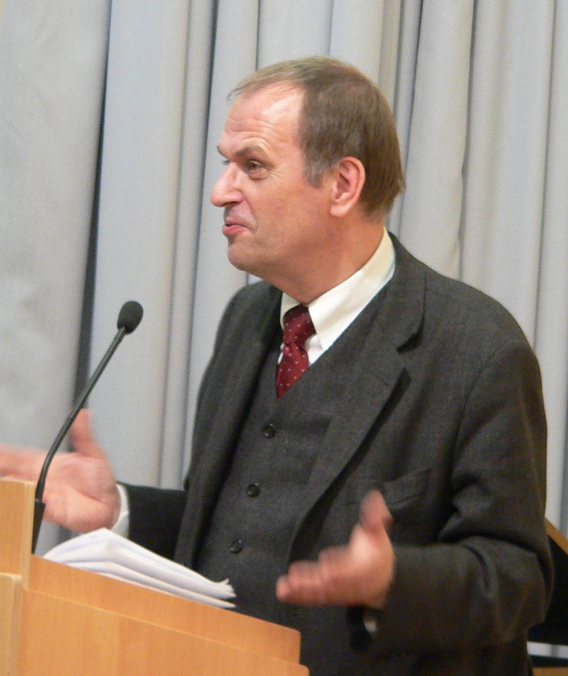 Reinhard Höppner speaking at the Evangelische Akademie Wittenberg in December 2008